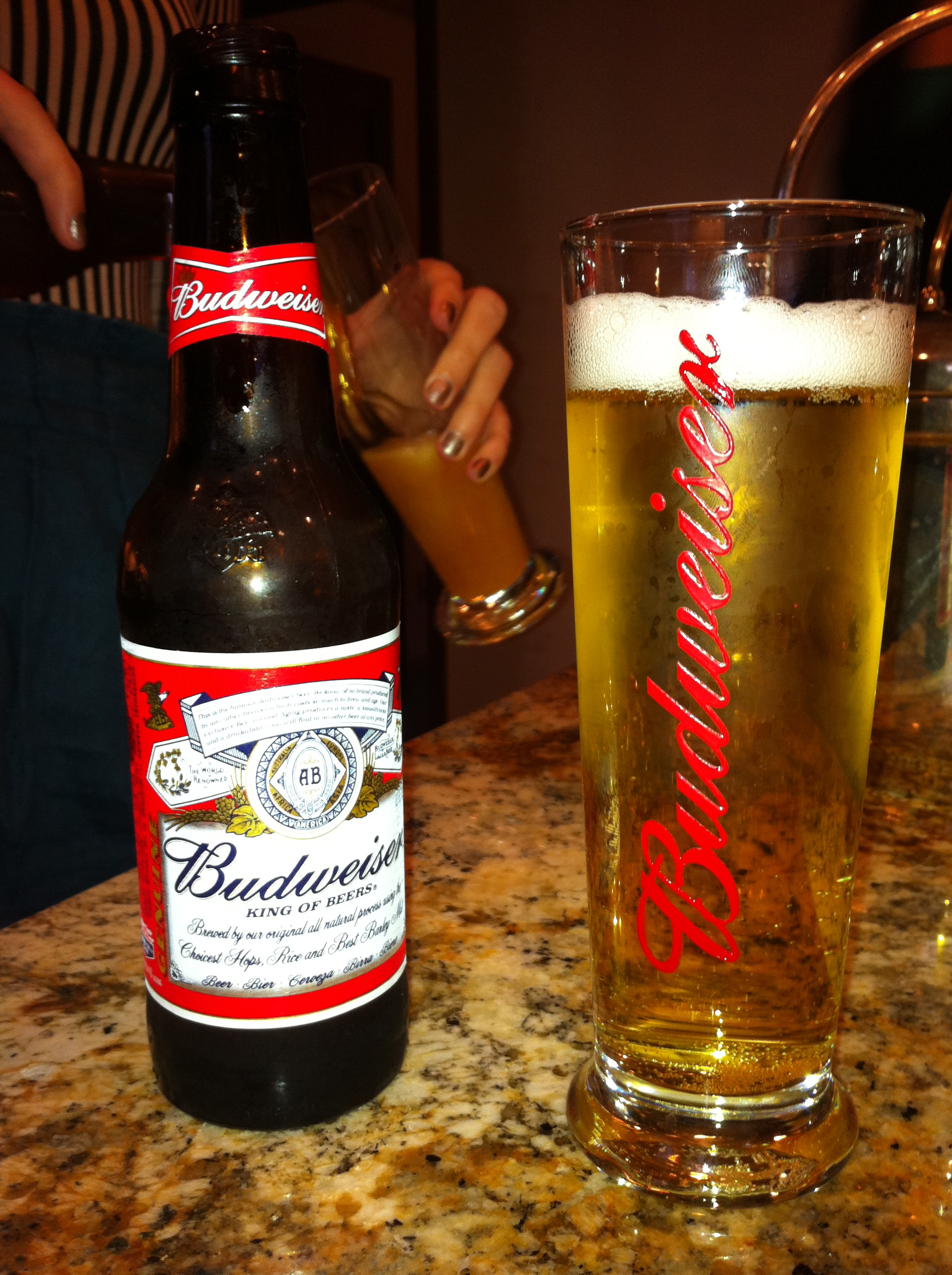 Bottle and glass of american beer Budweiser from Anheuser-Busch.